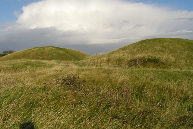 Round barrows on Nine Barrow Down Two of the larger prehistoric bowl barrows in the Nine Barrow Down barrow cemetery on Ailwood Down. The many barrows (probably twice as many as the name suggests) are clustered along the spine of the Purbeck chalk ridge. There is an earlier neolithic long barrow alongside the bronze-age barrows, beneath the feet of the photographer.